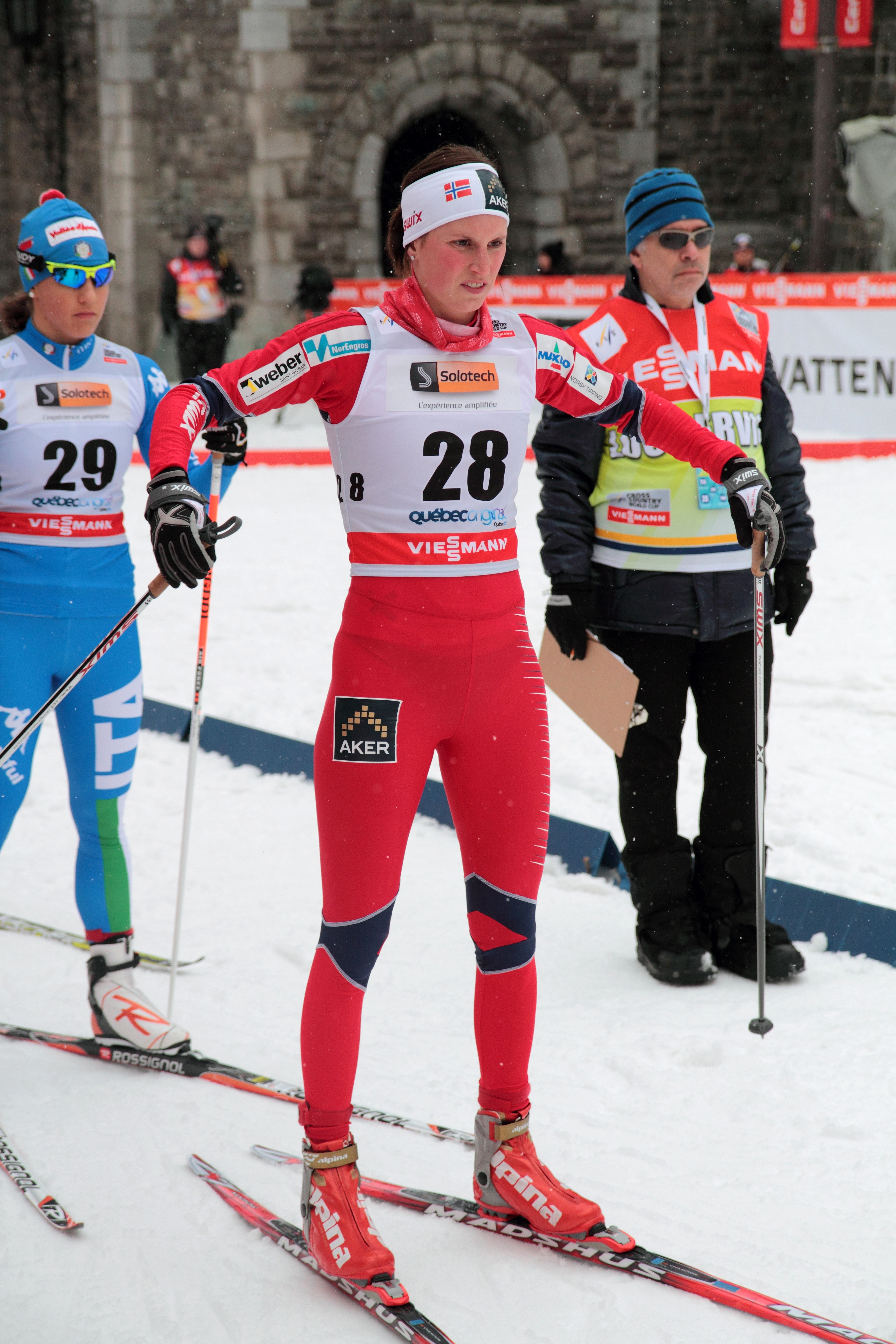 Kari Vikhagen Gjeitnes, FIS Cross-Country World Cup 2012, Quebec, Canada.